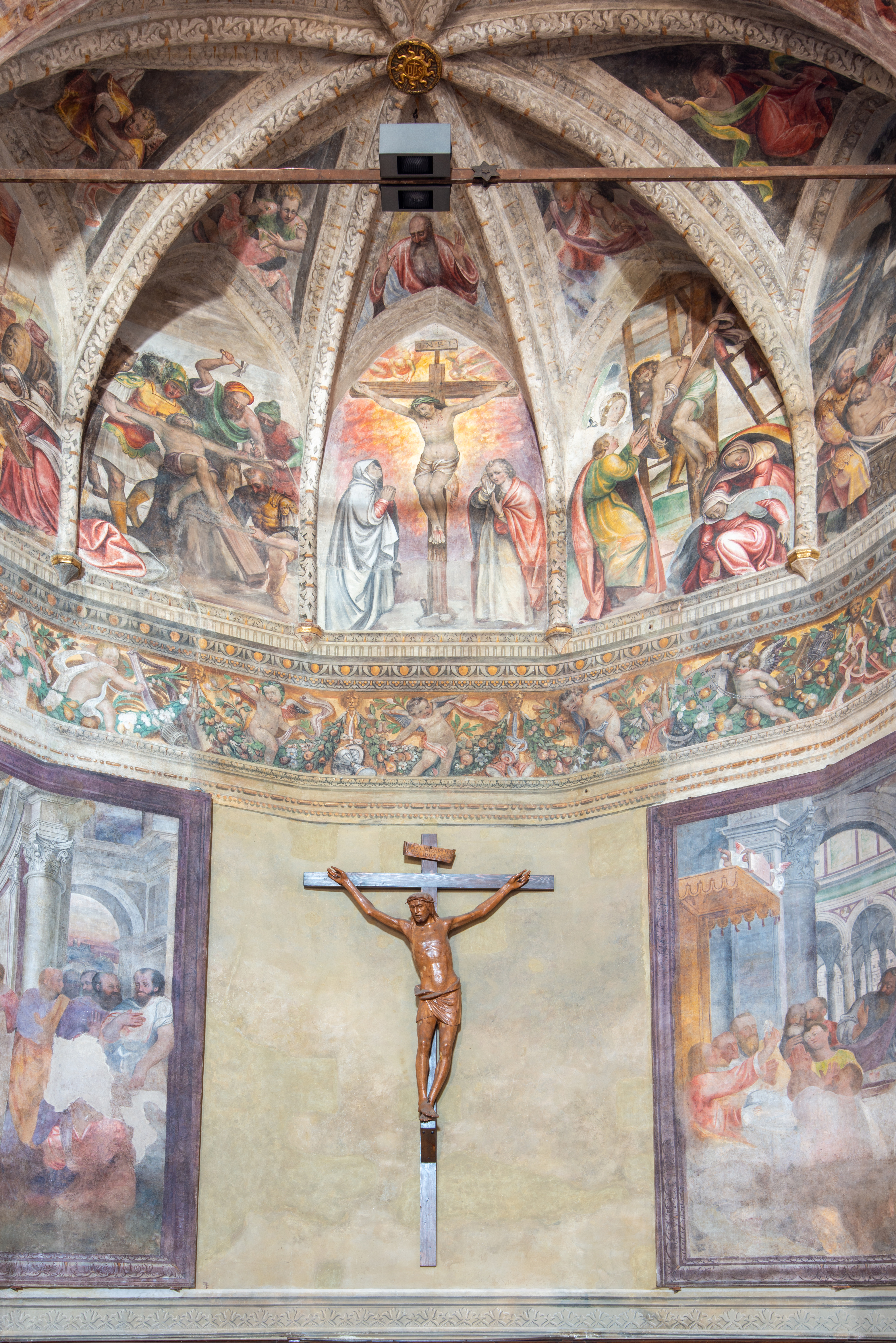 Apse with wooden crucifix in the Santo Corpo di Cristo Monastery church in Brescia